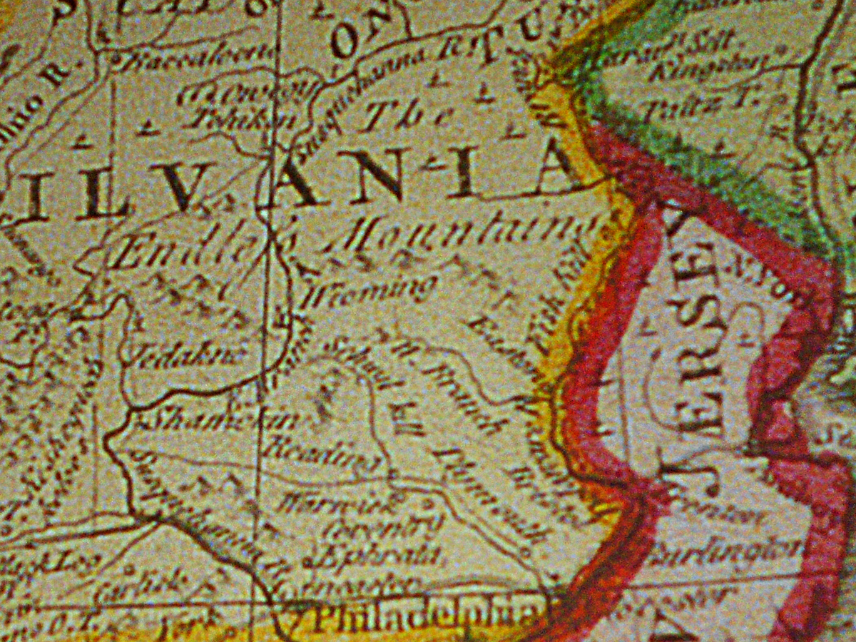 Portion of a map on display at the Smithsonian Institution, showing the Endleʃs Mountains